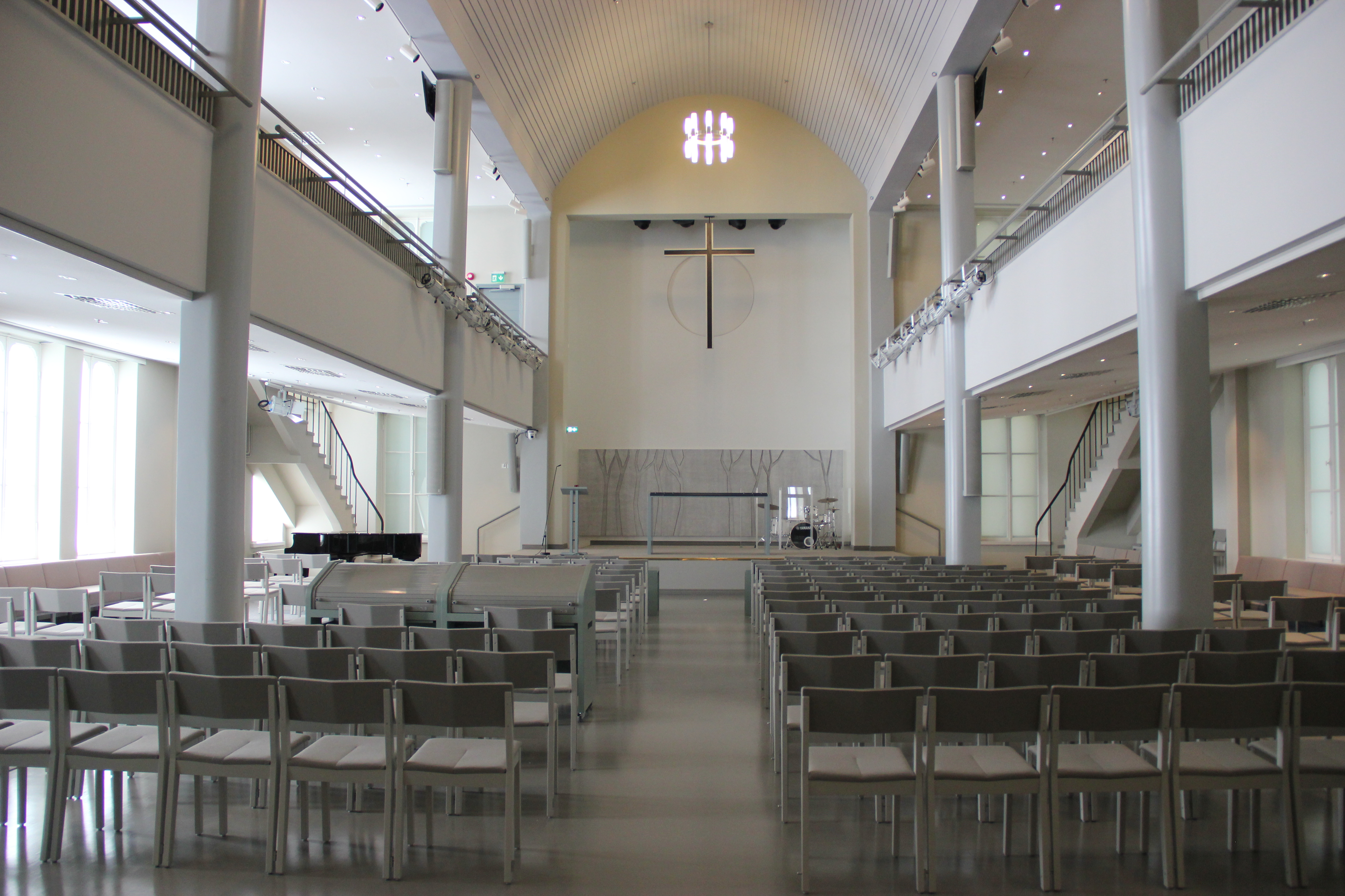 Luther Church, interior, Fredrikinkatu 42, Helsinki, Finland, The church was used as a restaurant for 30 years. Now after renovation in ecclesiastical use again.